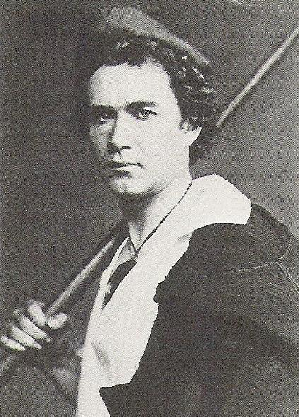 Photograph dated 1860 of Harald Scharrf, a ballet dancer at the Royal Theatre, Copenhagen, Denmark in "Napoli". Photograph by Henrik Wickmann in the collections of the Teatermuseet, Copenhagen, Denmark.